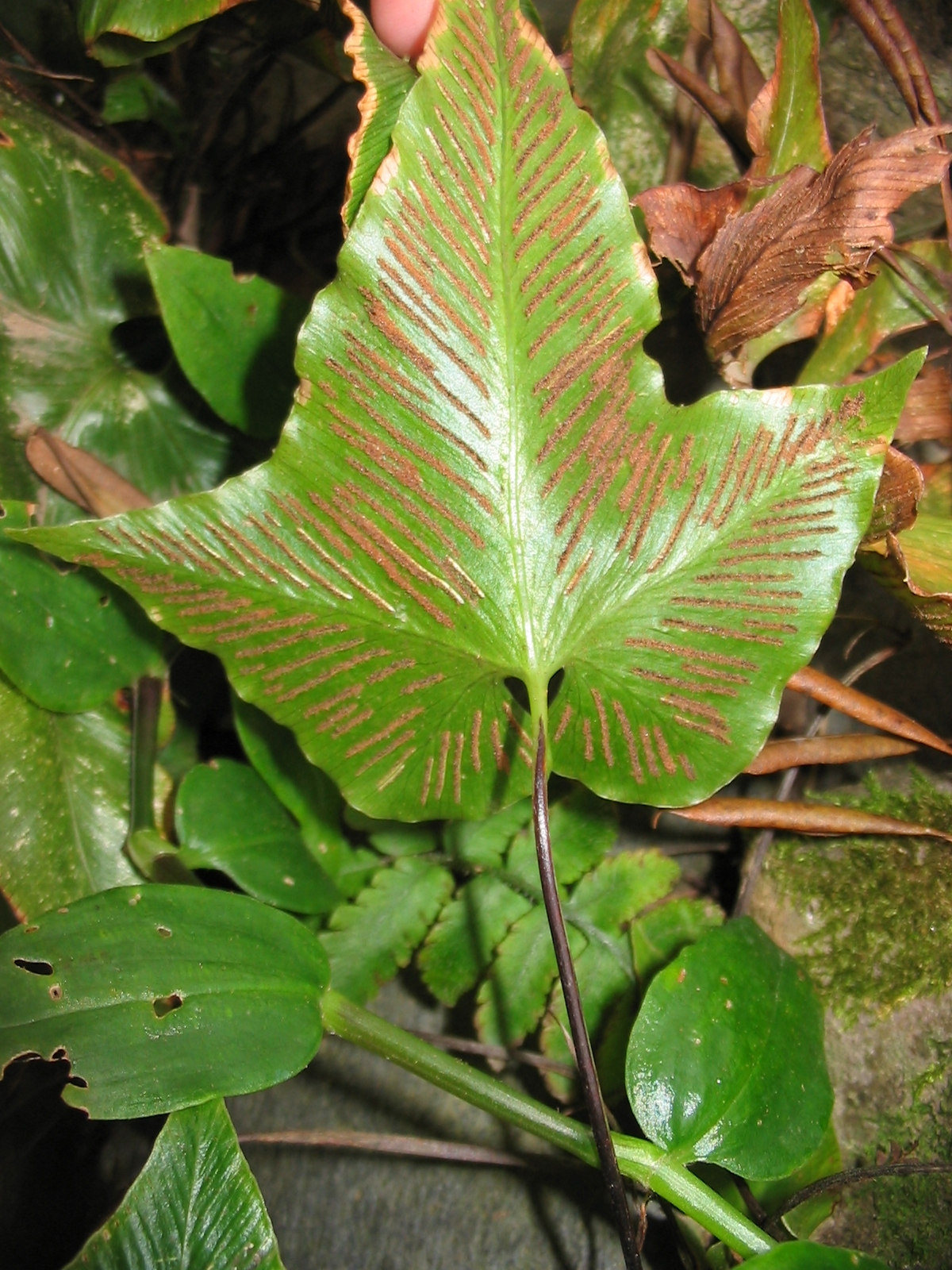 Asplenium hemionitis - Sori